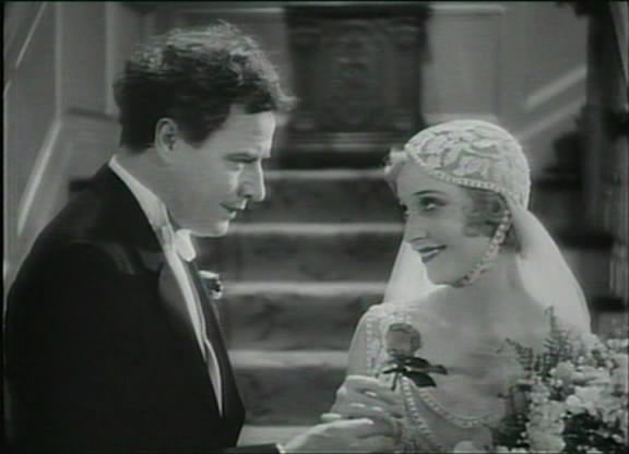 Robert Frazer and Madge Bellamy in White Zombie (1932, Halperin)